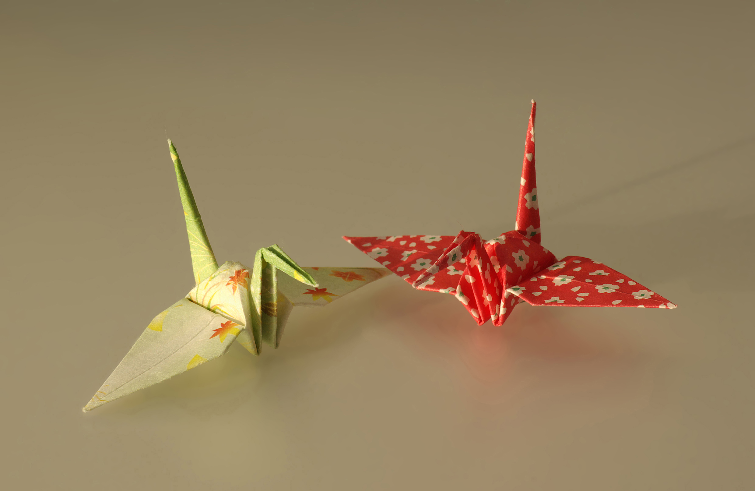 Cranes made by Origami (paper). The height is 35mm.